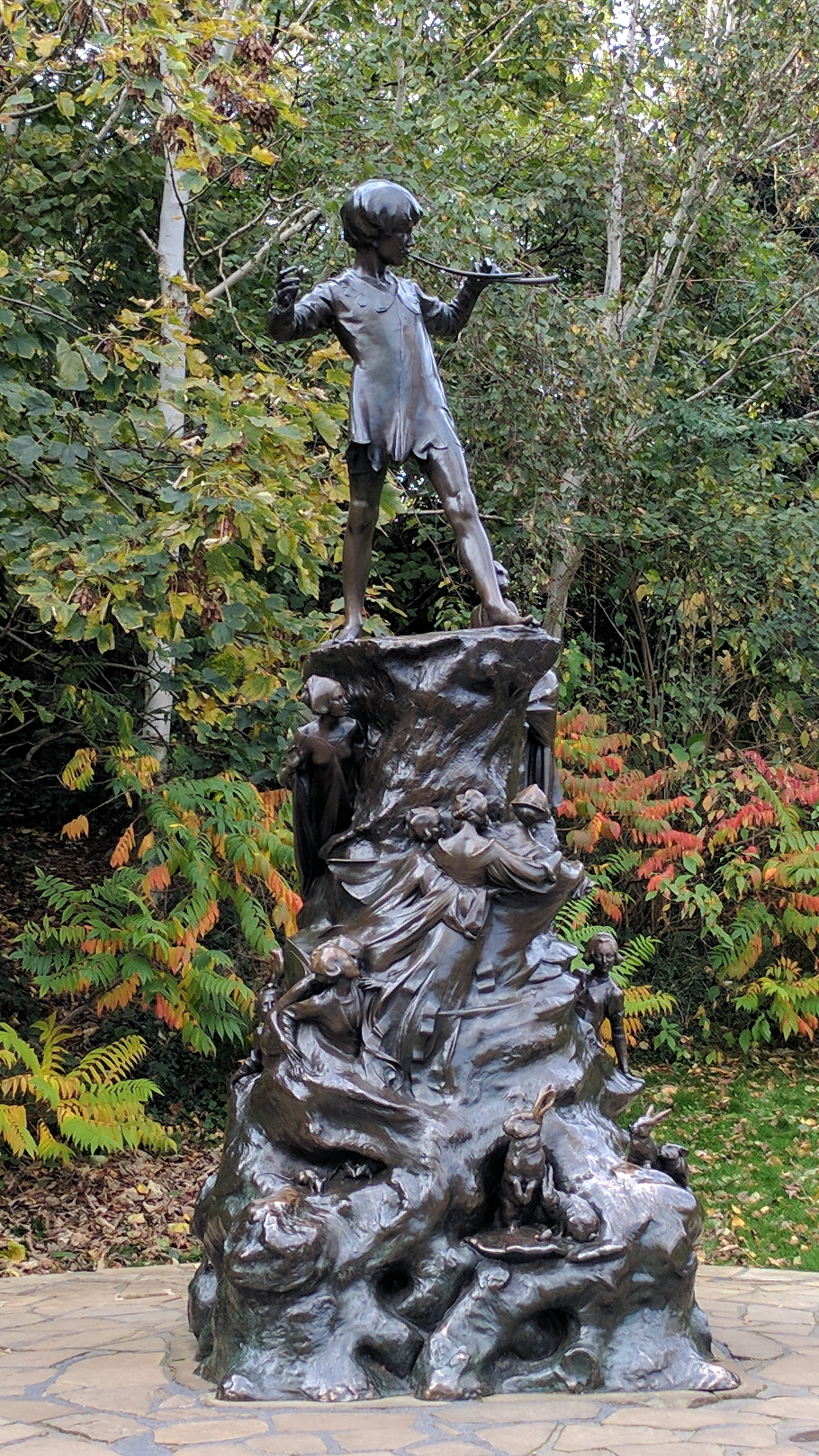 Statue of Peter Pan Wikidata has entry Q17549621 with data related to this item.